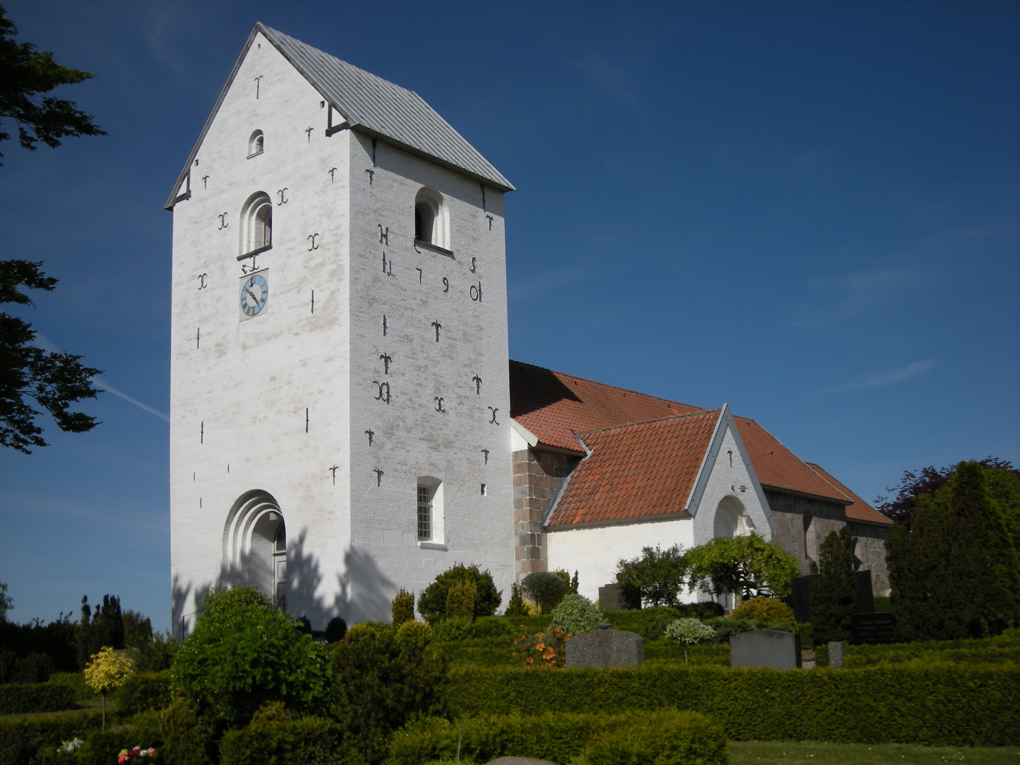 Vokslev Church, Municipality of Aalborg, Region Northern Jutland, Denmark.